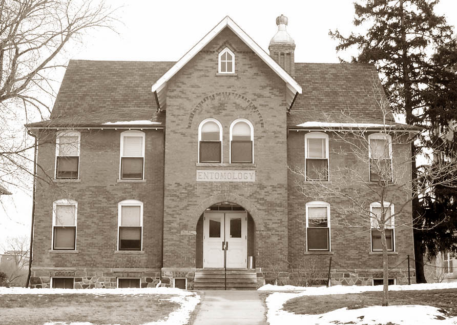 Photo self-taken and sepiatoned.